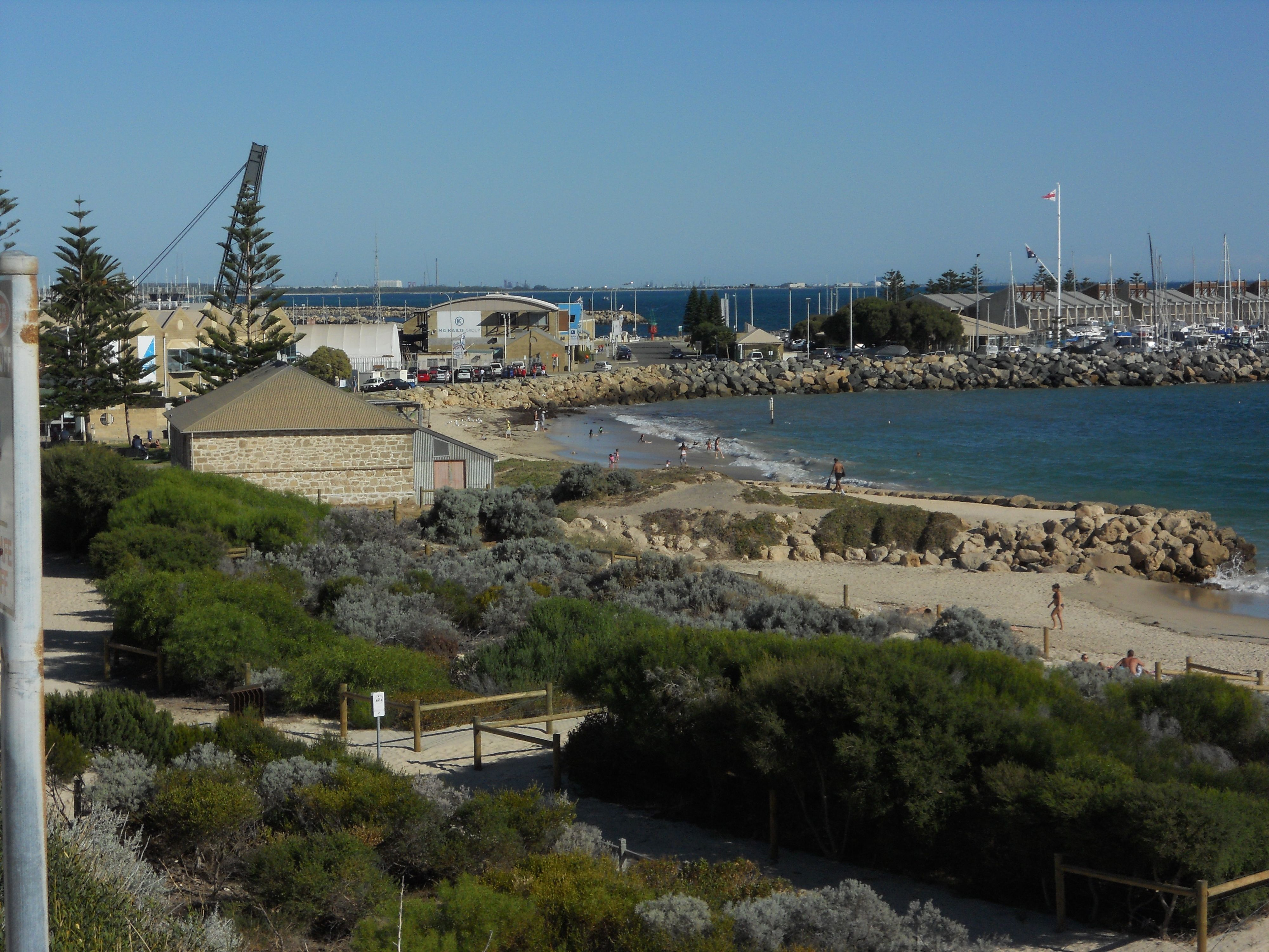 Looking from the Roundhouse hill, across the Bathers Beach area toward the south, looking towards the fishing boat harbour